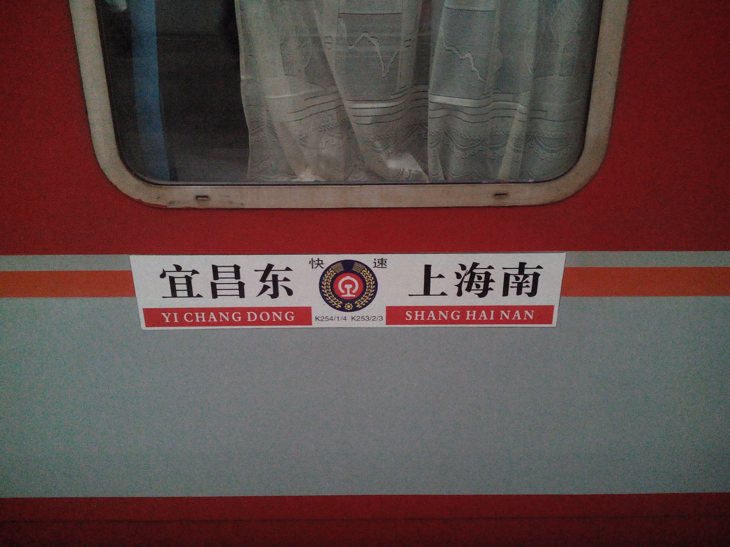 Taken at Shanghainan Station.